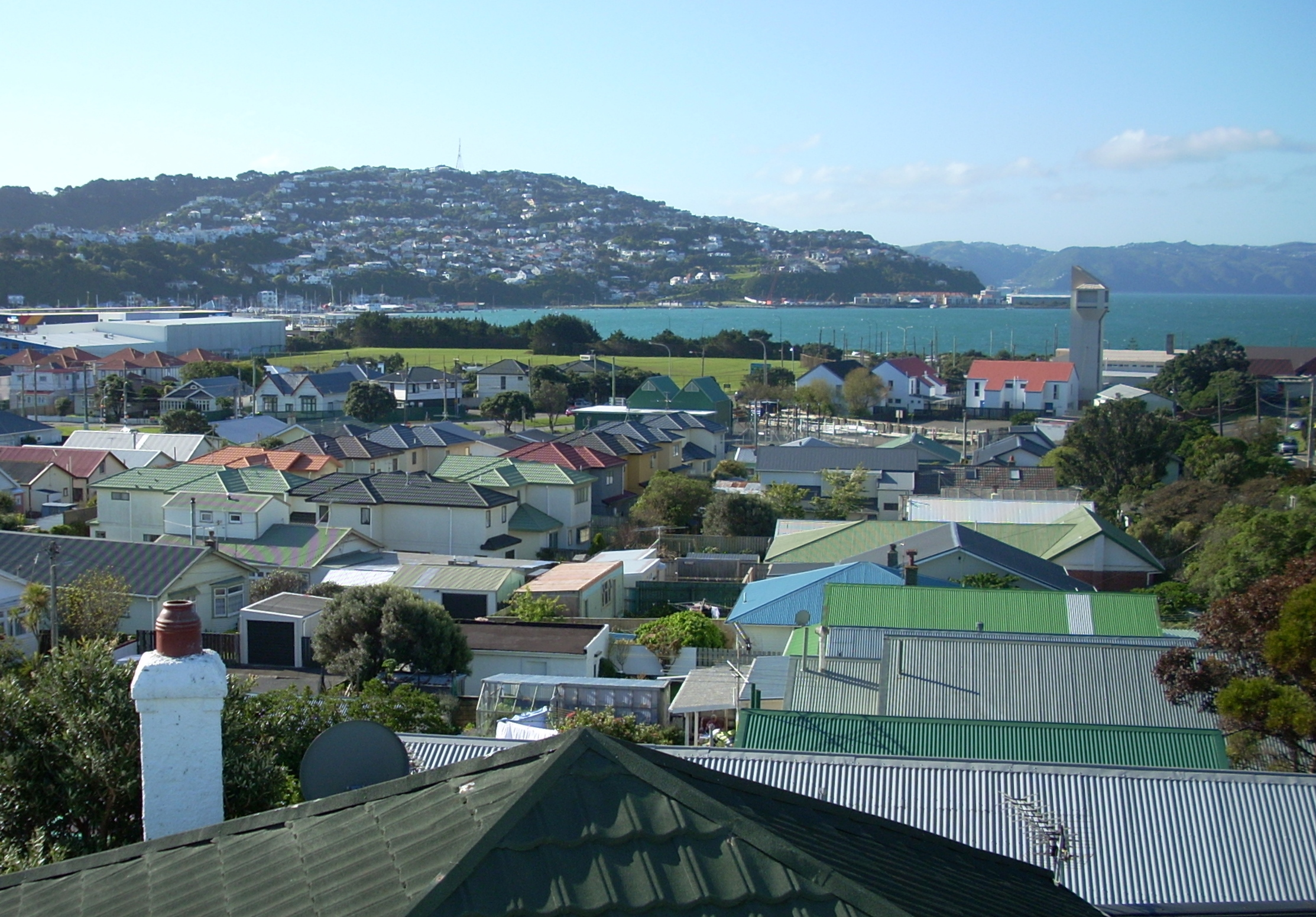 Northwest part of the Rongotai suburb of Wellington, New Zealand.